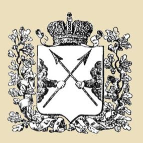 Coat of Arms of Ugra (Iuhra).